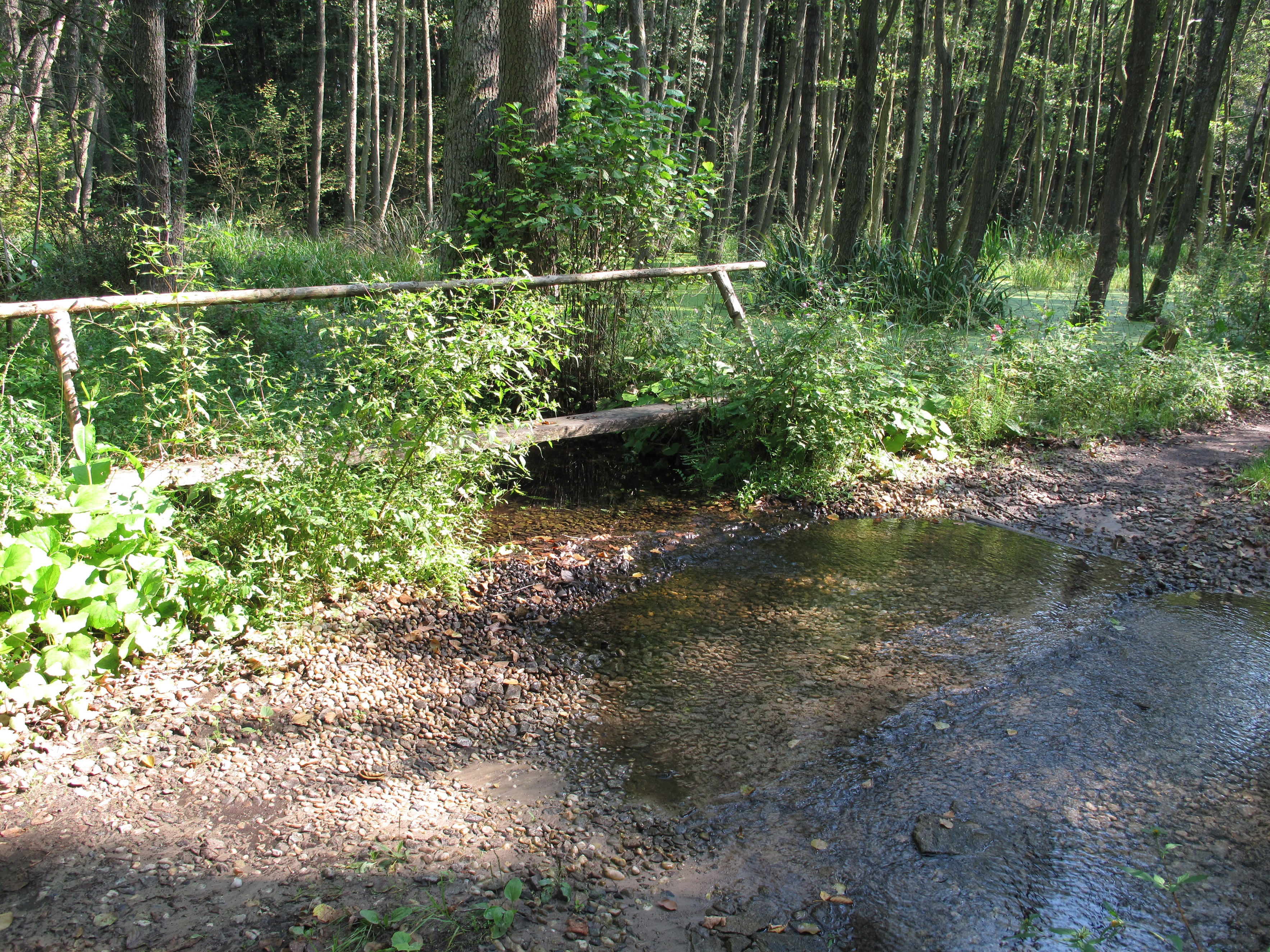 Bridge over the Blabbergraben at the former Blabberschäferei (sheep farm) in the village Görsdorf. The Blabbergraben is a stream in the District Oder-Spree, Brandenburg, Germany. Coming from the „ Herzberger See“ the stream connects five small, long lakes in the municipalities Rietz-Neuendorf and Tauche and drains them into the river Spree. Including the lakes the flow length is 13,7 kilometers.